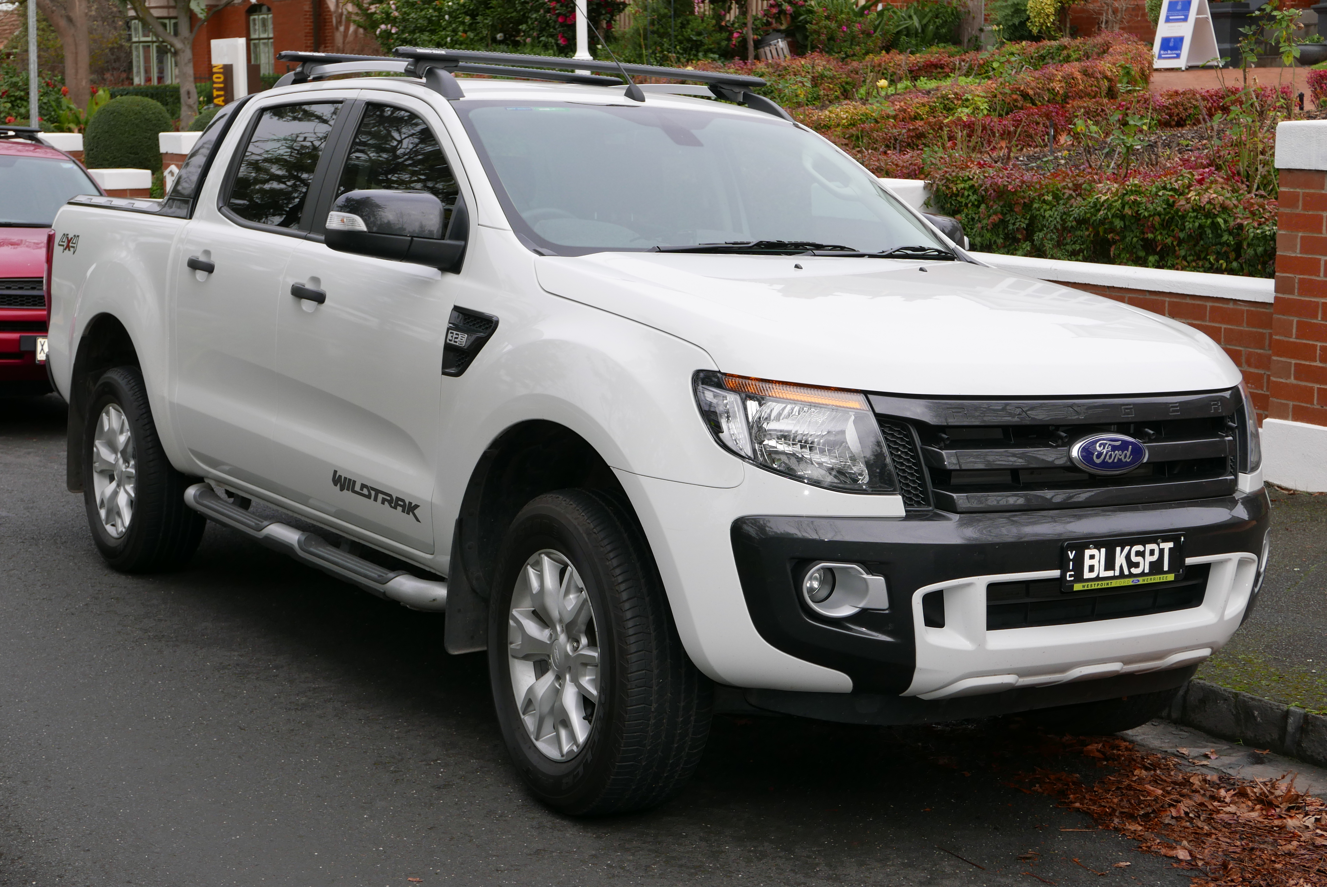 2014 Ford Ranger (PX) Wildtrak 4WD 4-door utility. Photographed in Ivanhoe, Victoria, Australia. Vehicle registration enquiry resultsJurisdictionVictoriaRegistrationBLKSPTChassis codeMNAUMFF50EW293021Engine codeP5AT1117117Compliance date2014-08Year of manufacture2014